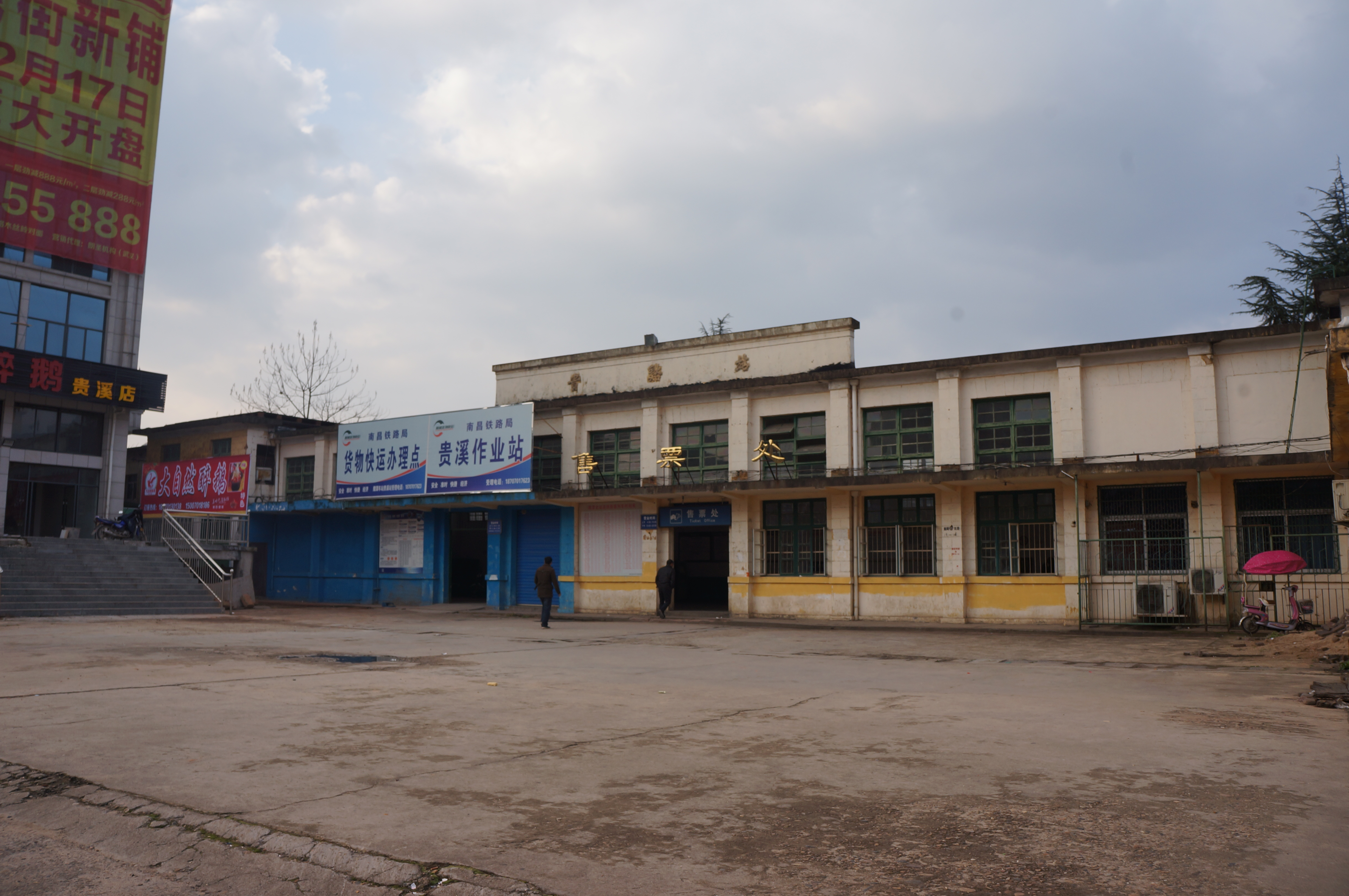 201612 Ticket House of Guixi Station, it seems to be the old entrance of the station